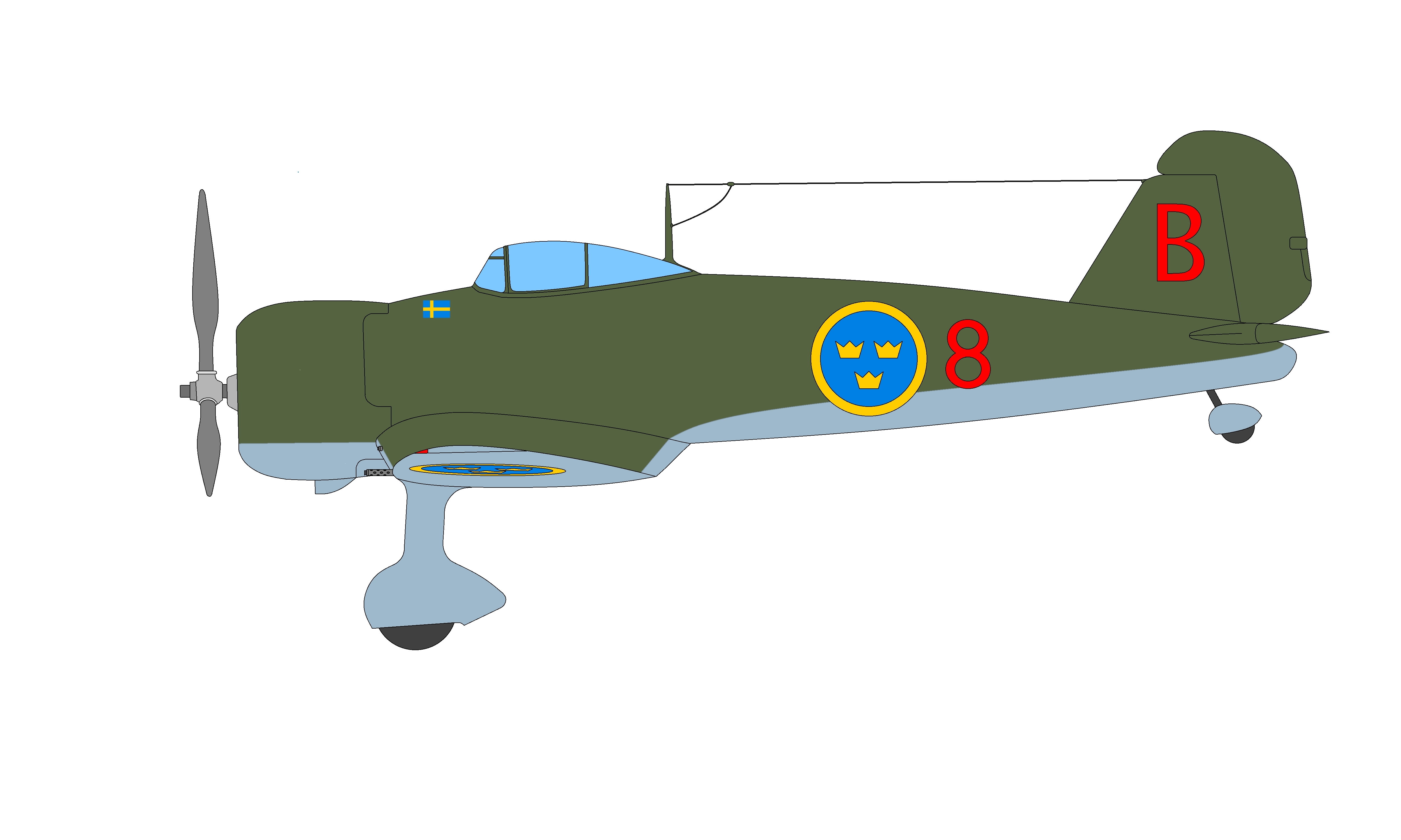 An artists impression of the Sparmann E4 fighter project (military designation P3)